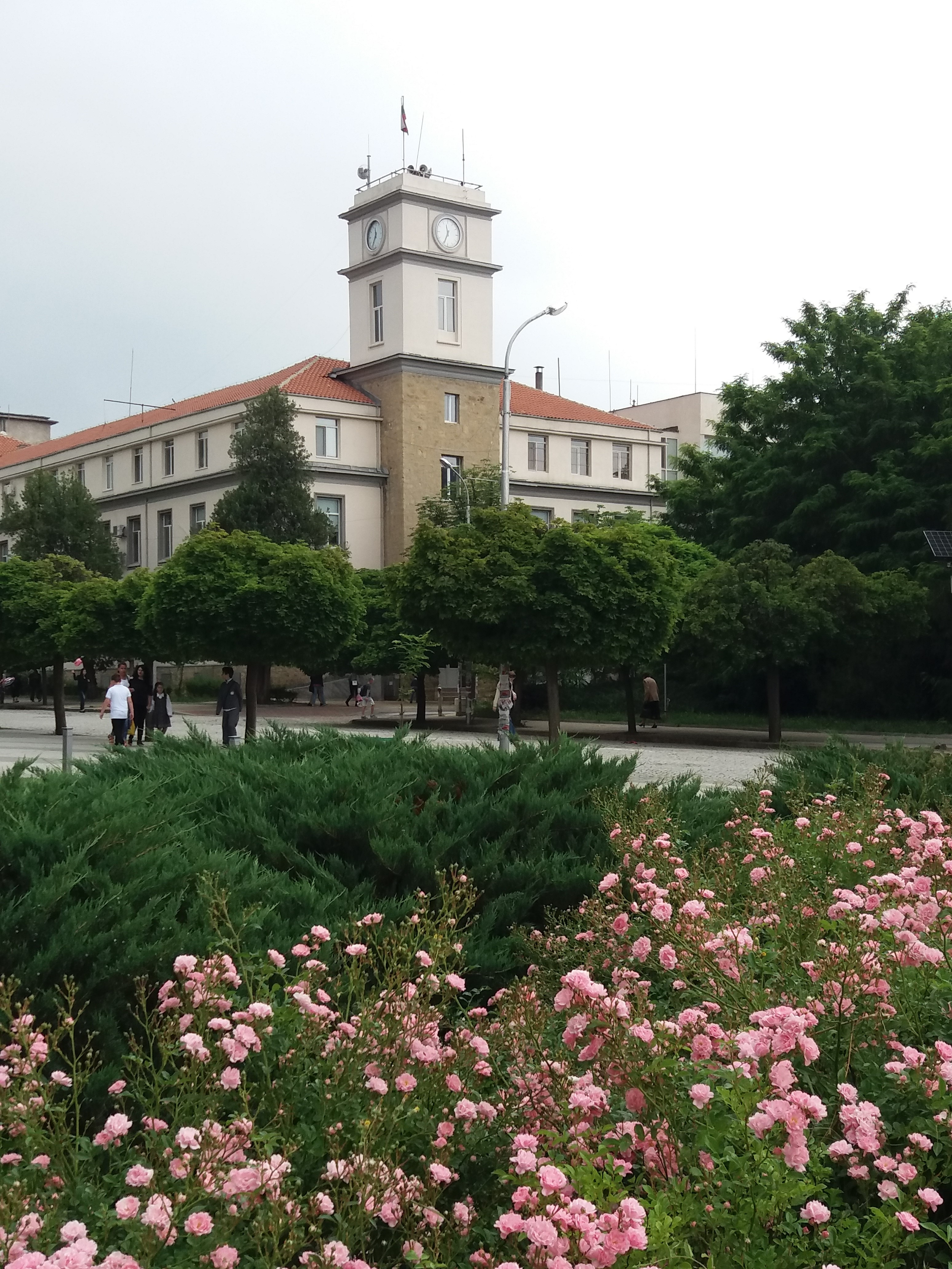 Kardzhali Old Clock Tower. Built in 1931